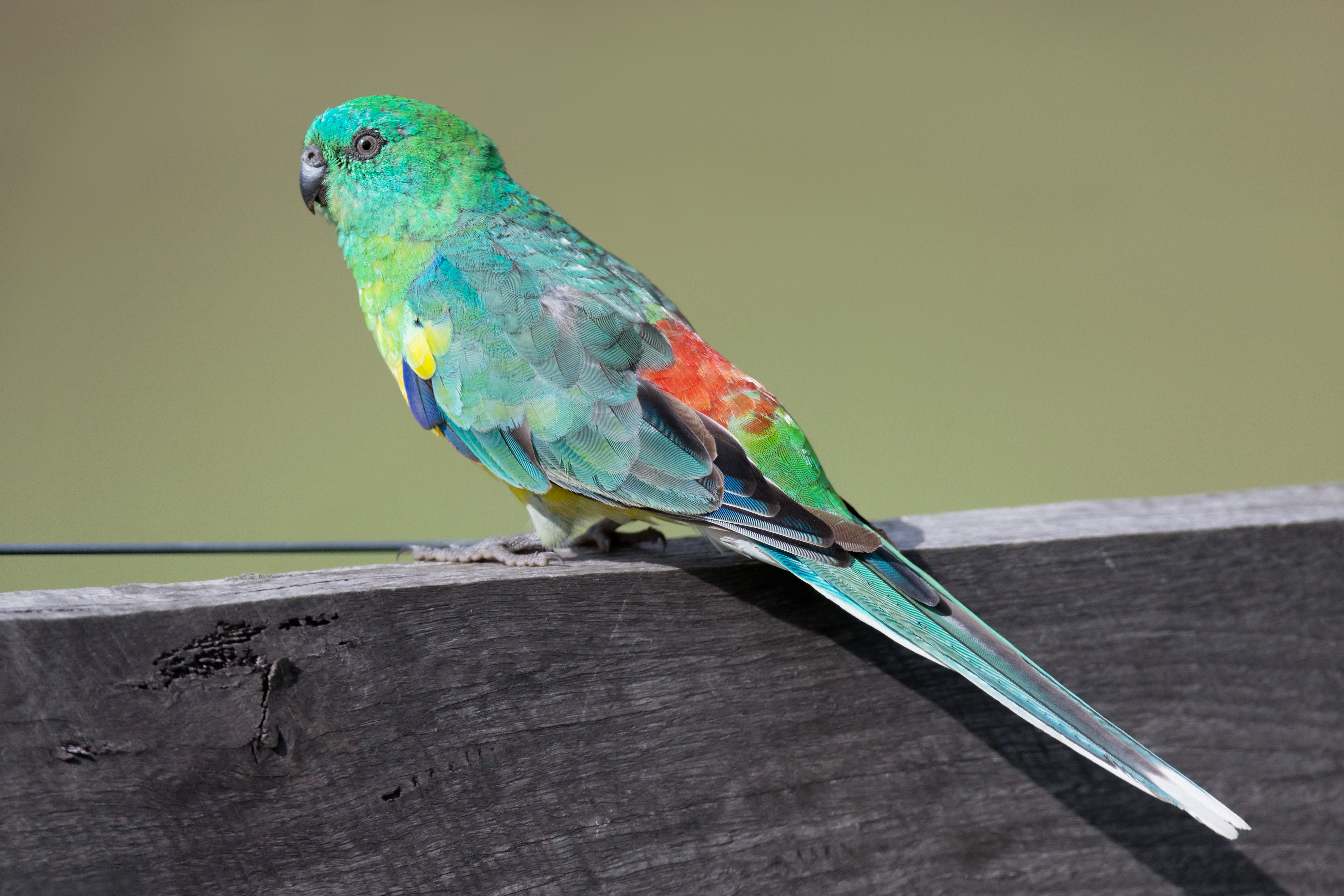 Red-rumped Parrot (Psephotus haematonotus) male, Cornwallis Rd, New South Wales, Australia